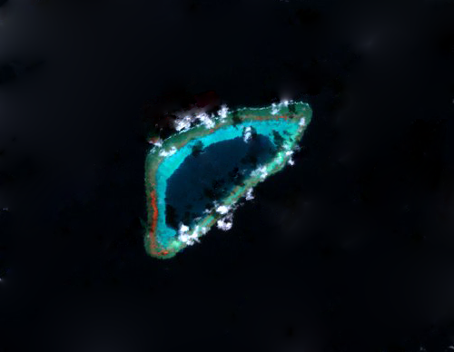 Tennent Reef or Pigeon Reef is an atoll of Spratly Islands.